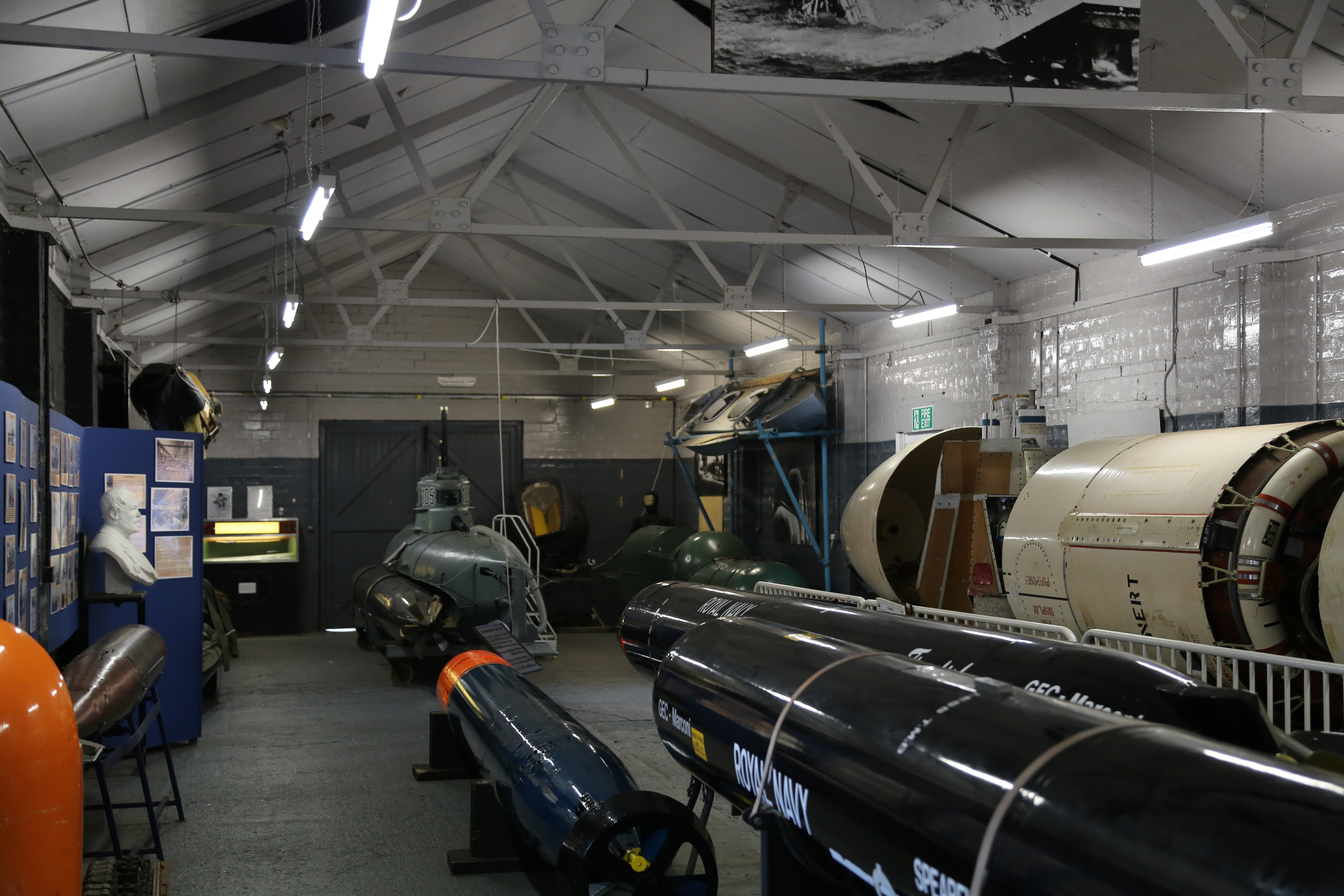 Photo of part of the weapons gallery in the Royal Navy Submarine Museum.